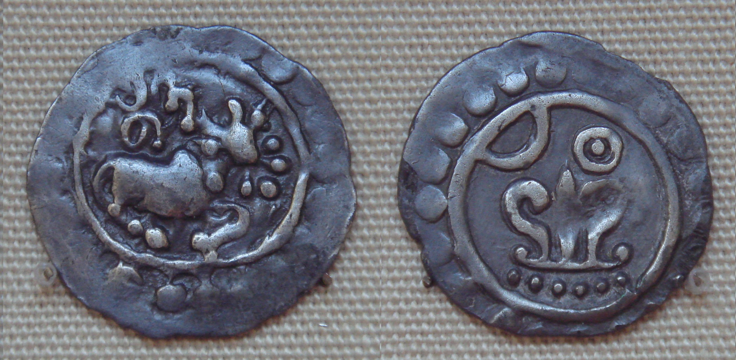 Silver coin of Arakan king Nitichandra depicting Brahmi legend “NITI” (obverse) and Shrivatasa symbol (reverse) from the eighth century AD.